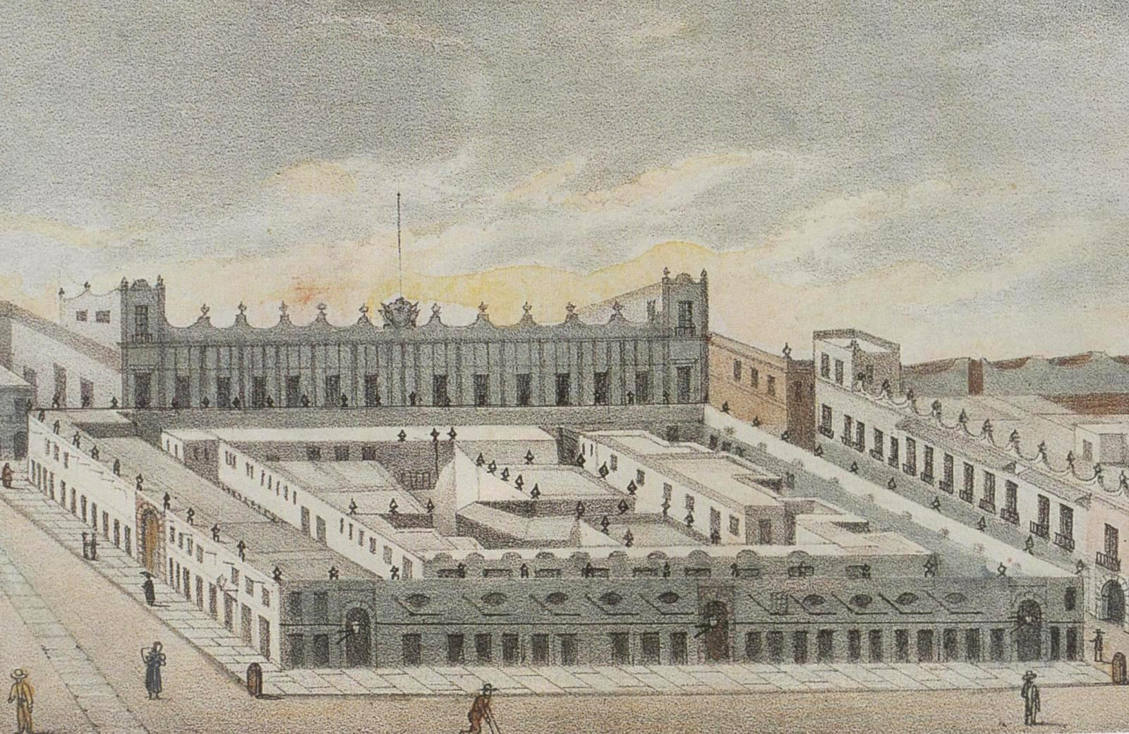 Lithograph of El Parian, looted in 1828 during the government of Guadalupe Victoria